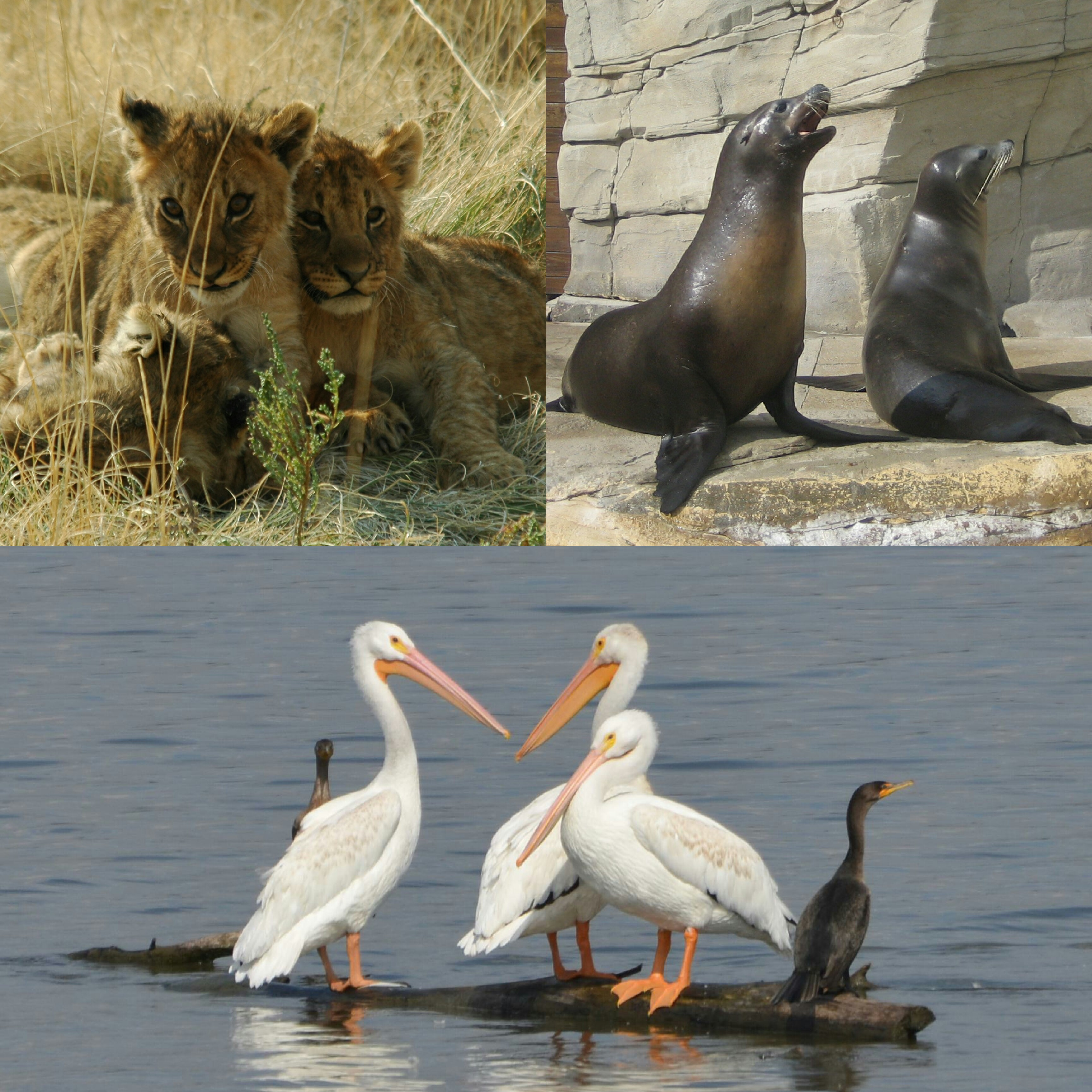 Upper left: Lion cubs at Etosha National Park in Namibia, 2006-08-11 Upper right: California sea lions at Nausicaä Centre National de la Mer in Boulogne-sur-Mer, France, 2008-07-20 Bottom: American white pelicans (and cormorants) at the Riverlands Migratory Bird Sanctuary in Alton, Missouri, United States, 2013-10-12